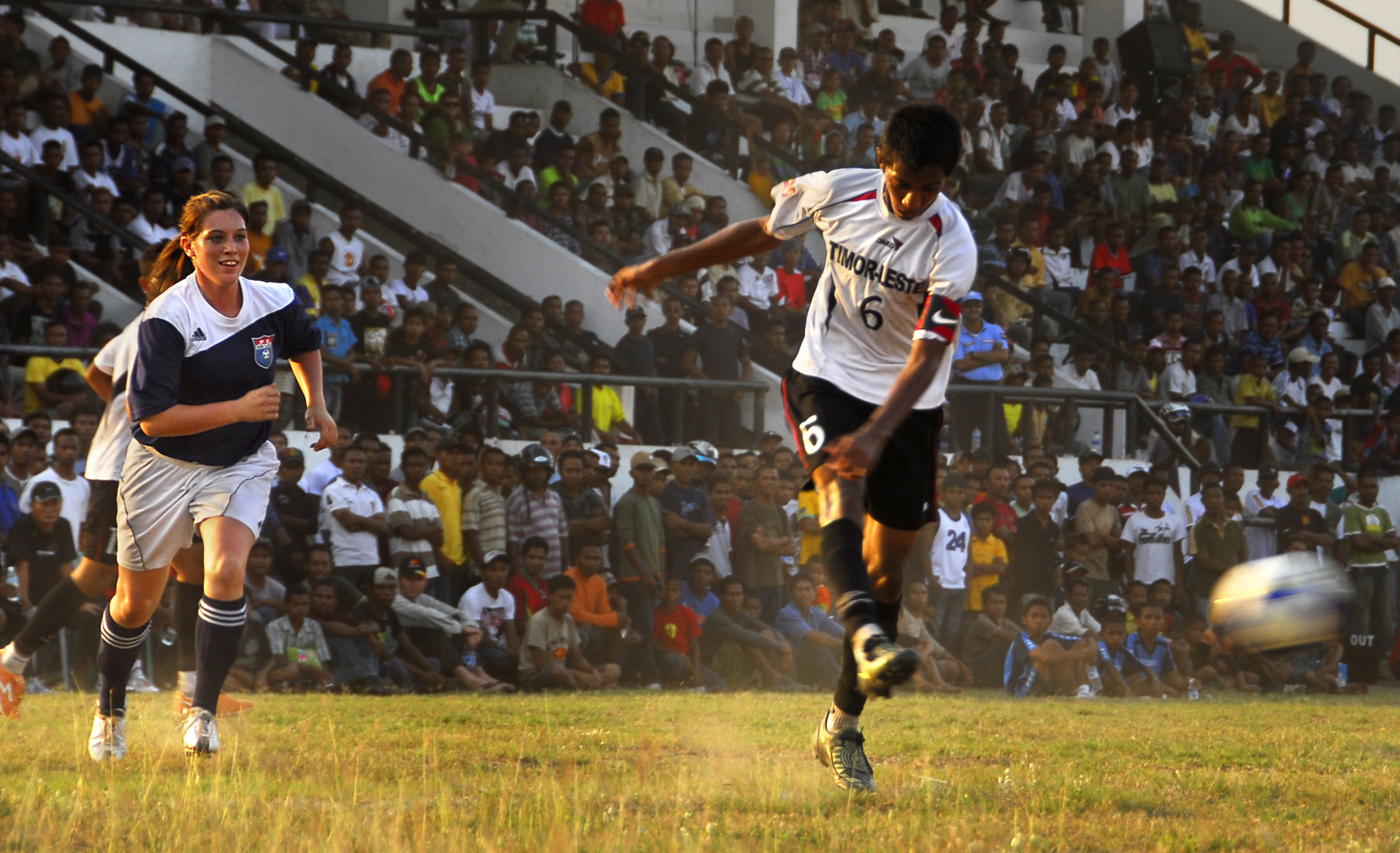 A Timor Leste player passes inside during a game against U.S. service members at the national soccer stadium here Oct. 18. The fledgling country’s secretary of youth and sports said the game was intended to promote peace and stability in the region. Timor Leste won 4-0. Some U.S. team members are Marines serving with the 11th Marine Expeditionary Unit, which deployed Sept. 24 from San Diego.